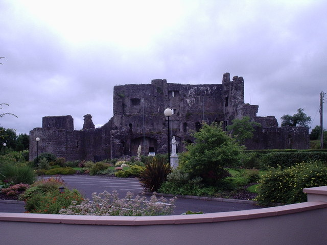 Ballymote Castle See Ballymote_Castle for information and history.